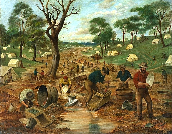 An Australian Gold Diggings, oil on canvas, 70.5 x 90.3 cm